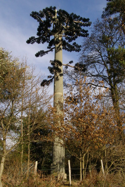 Communications mast in disguise, Bisterne Close, New Forest This mast-disguised-as-a-tree is alongside the road to Clay Hill car park, south of Bisterne Close. There are a number of tall Scots pine along this side of the road and this mast is presumably designed to blend in.